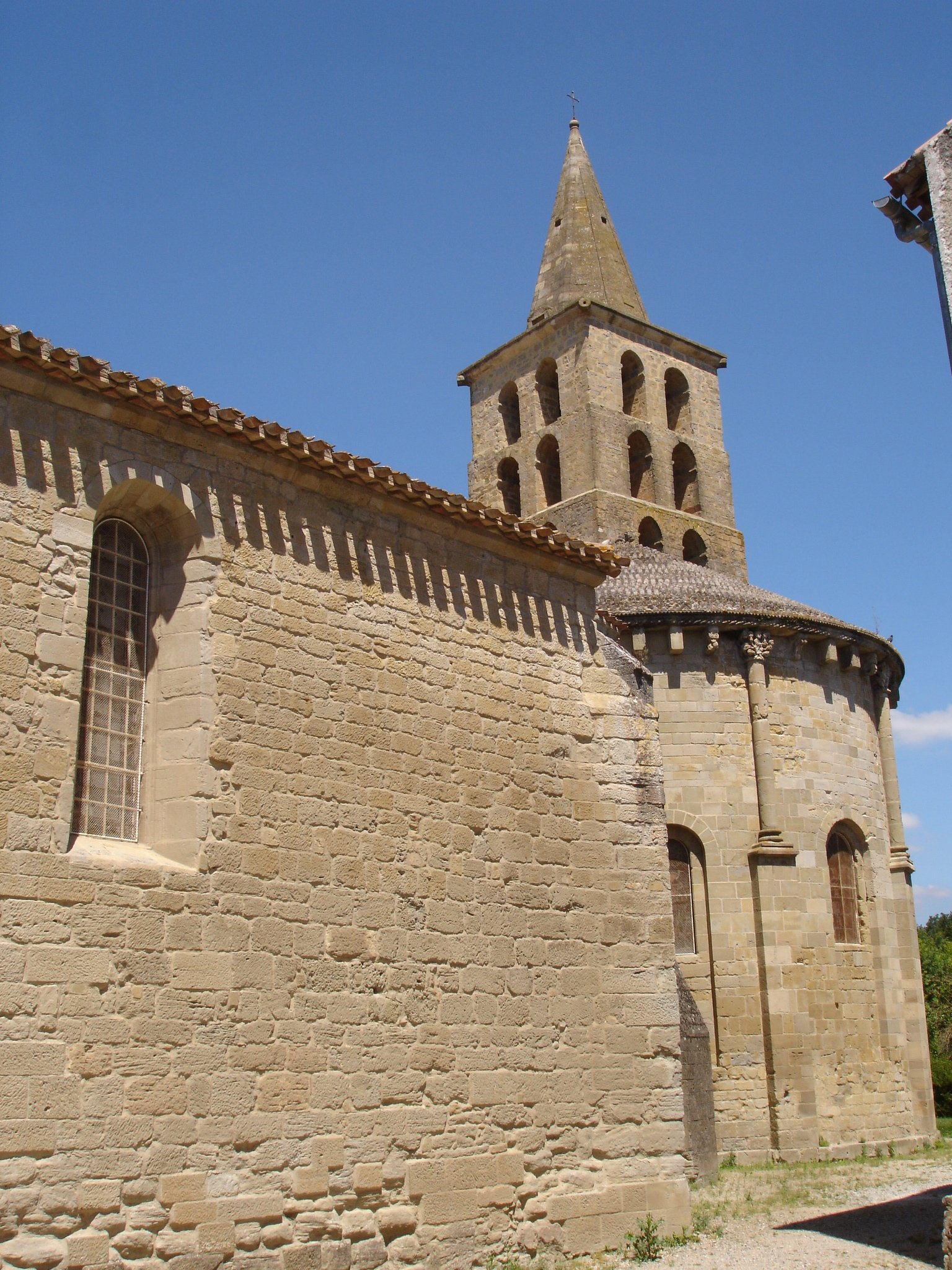 France, Aude, Saint-Papoul Abbey